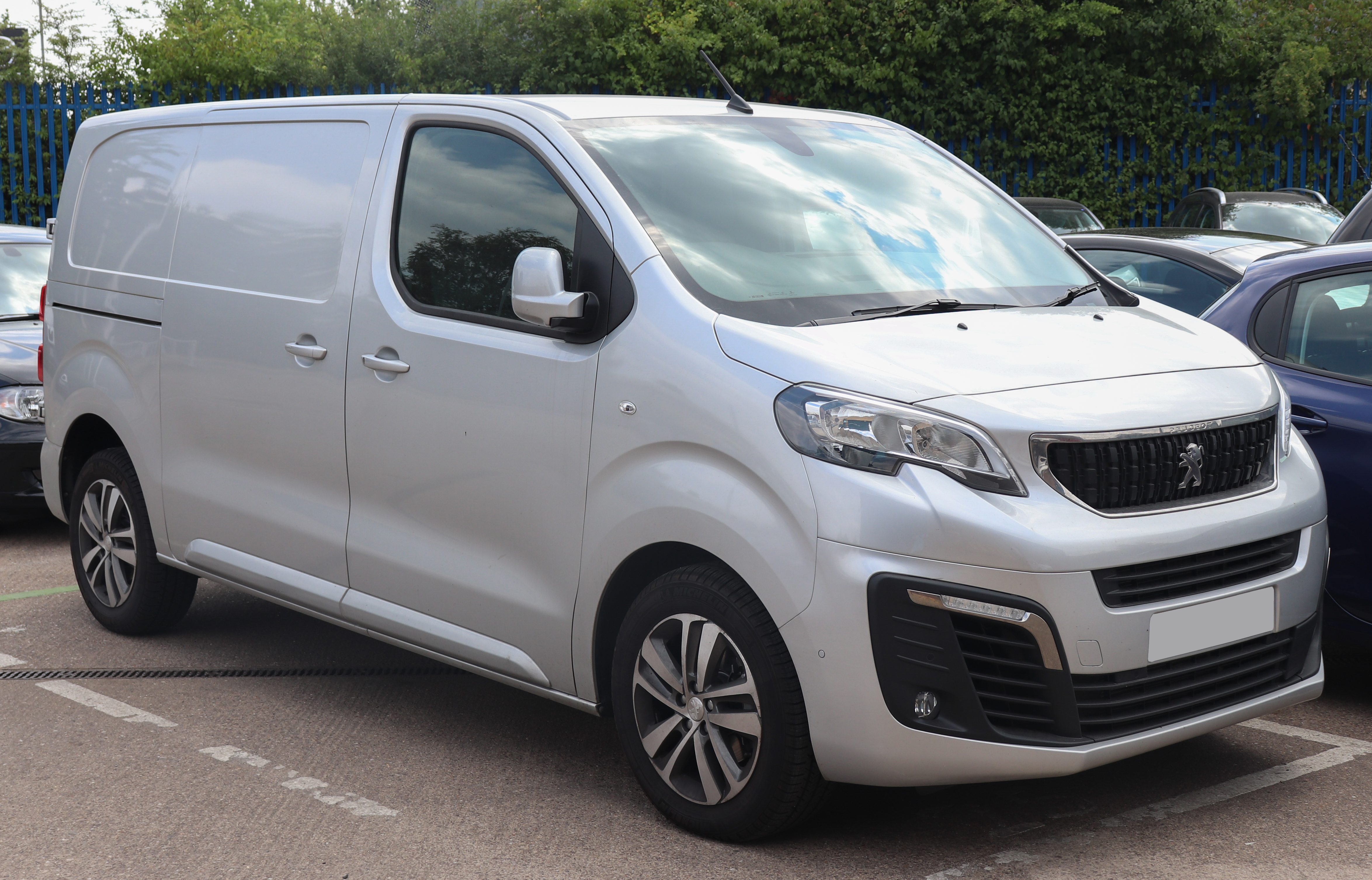 2018 Peugeot Expert Pro+ Standard Blu 2.0 Front Taken in Leamington Spa